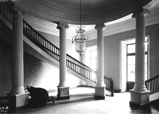 Saltykov Hall in Snegirevo, built in 1804